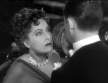 Screenshot taken by me (Icea) from the trailer to the movie Sunset Blvd.